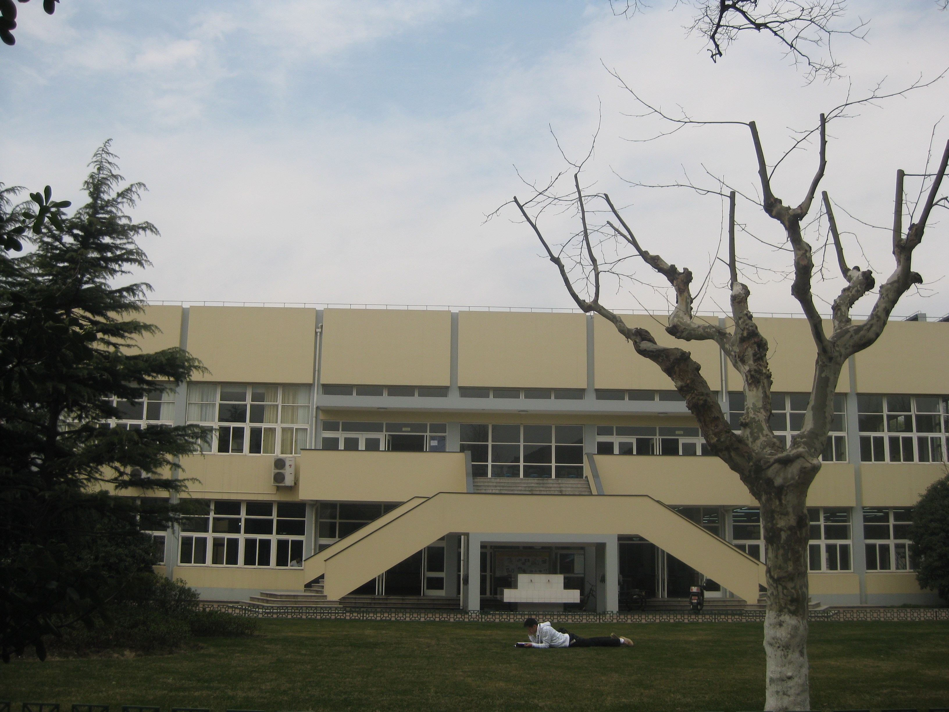 A panoramic view of the SHS Local and Teacher's cafeteria.